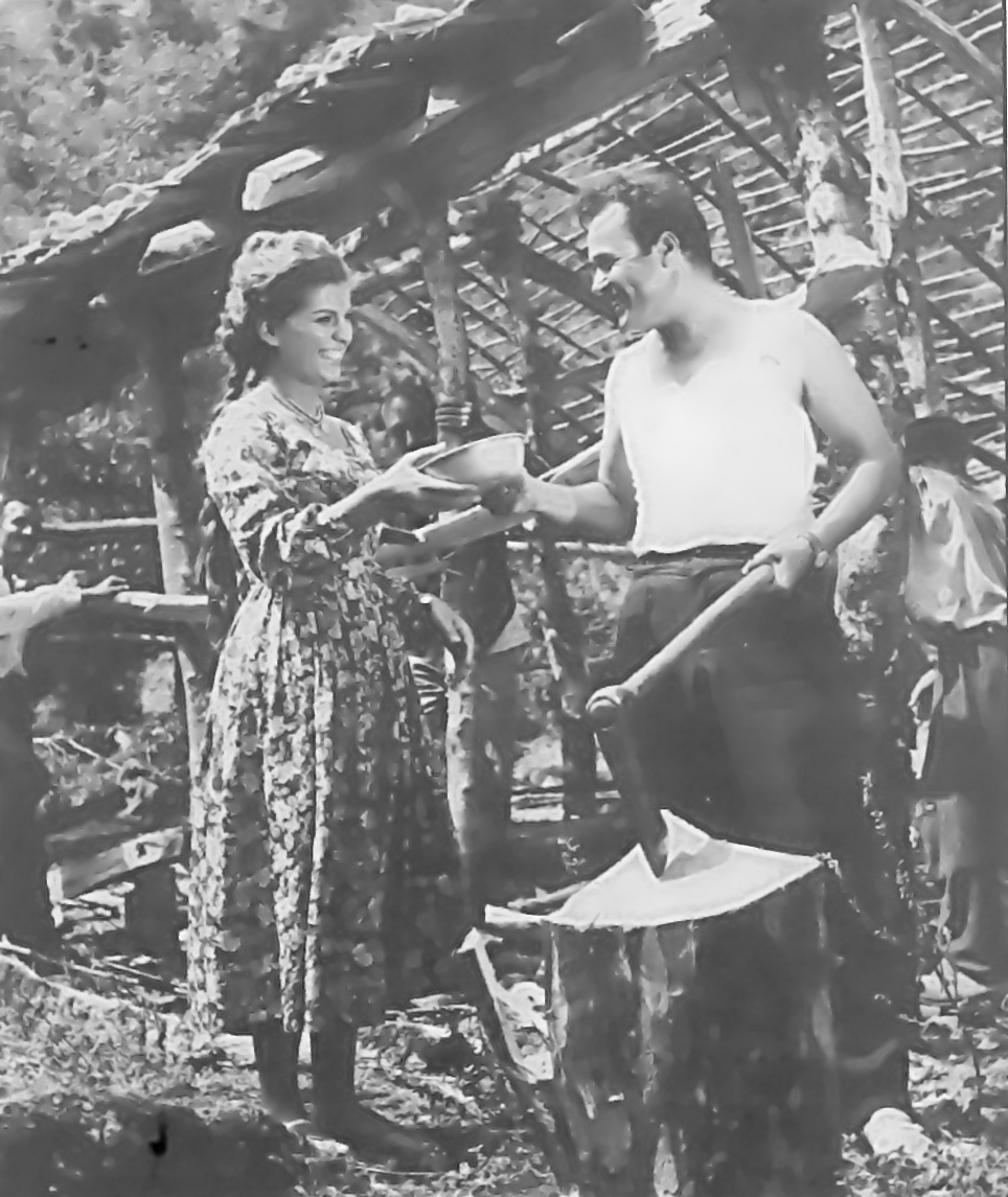 Mohammad Ali Ja'fari and Forouzan in Sahel-e Entezam, Esmail Kushan, 1963 (screenshot)